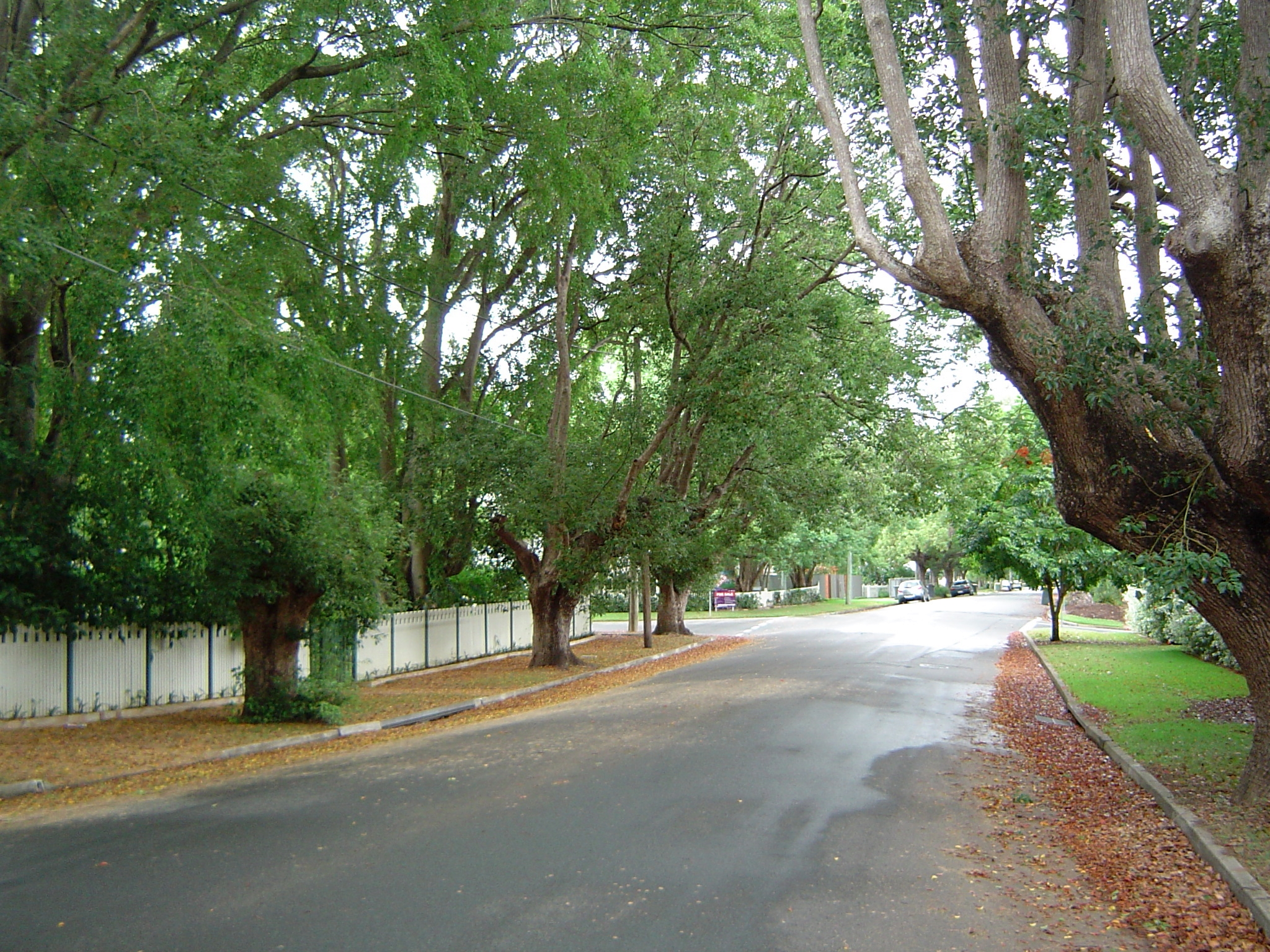 Photo of Laurel Avenue, Chelmer, Brisbane, Queensland, Australia.